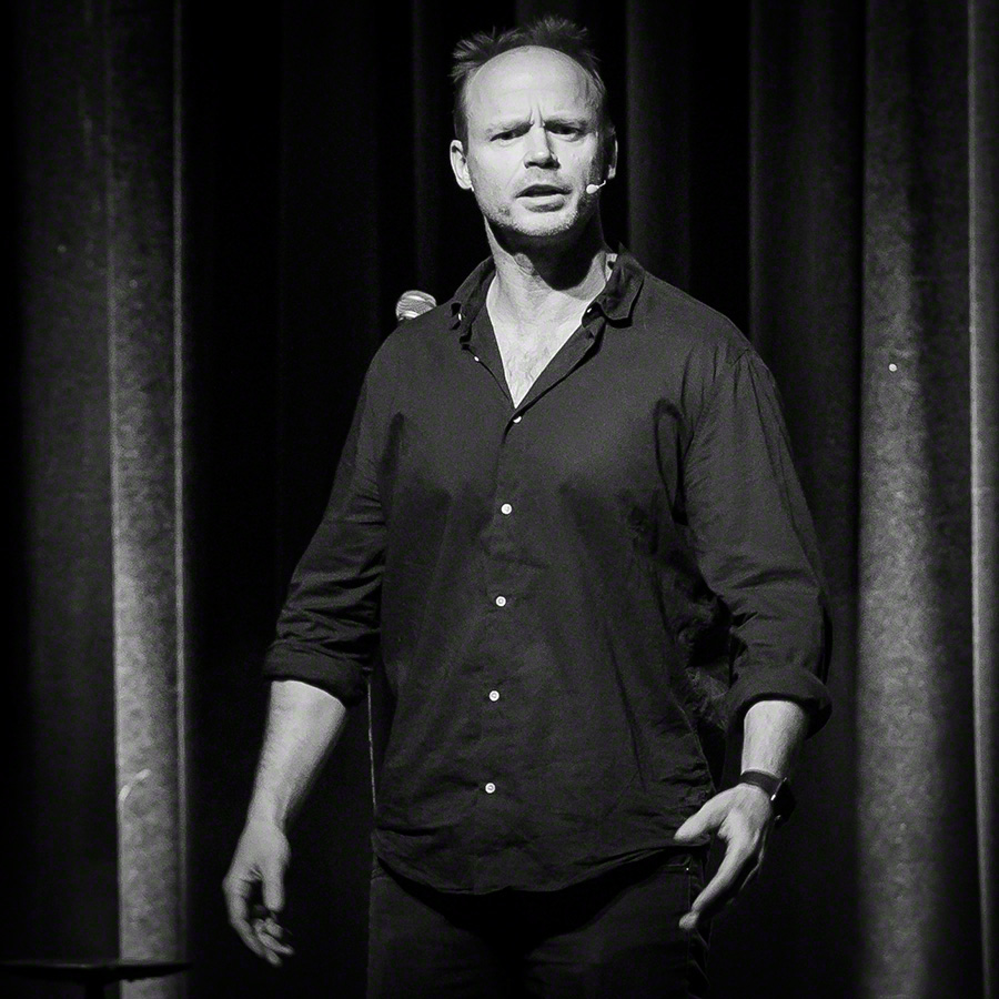 Harald Eia performing at the Crap Comedy Festival in January 2016. The festival takes place at Parkteatret in Oslo.